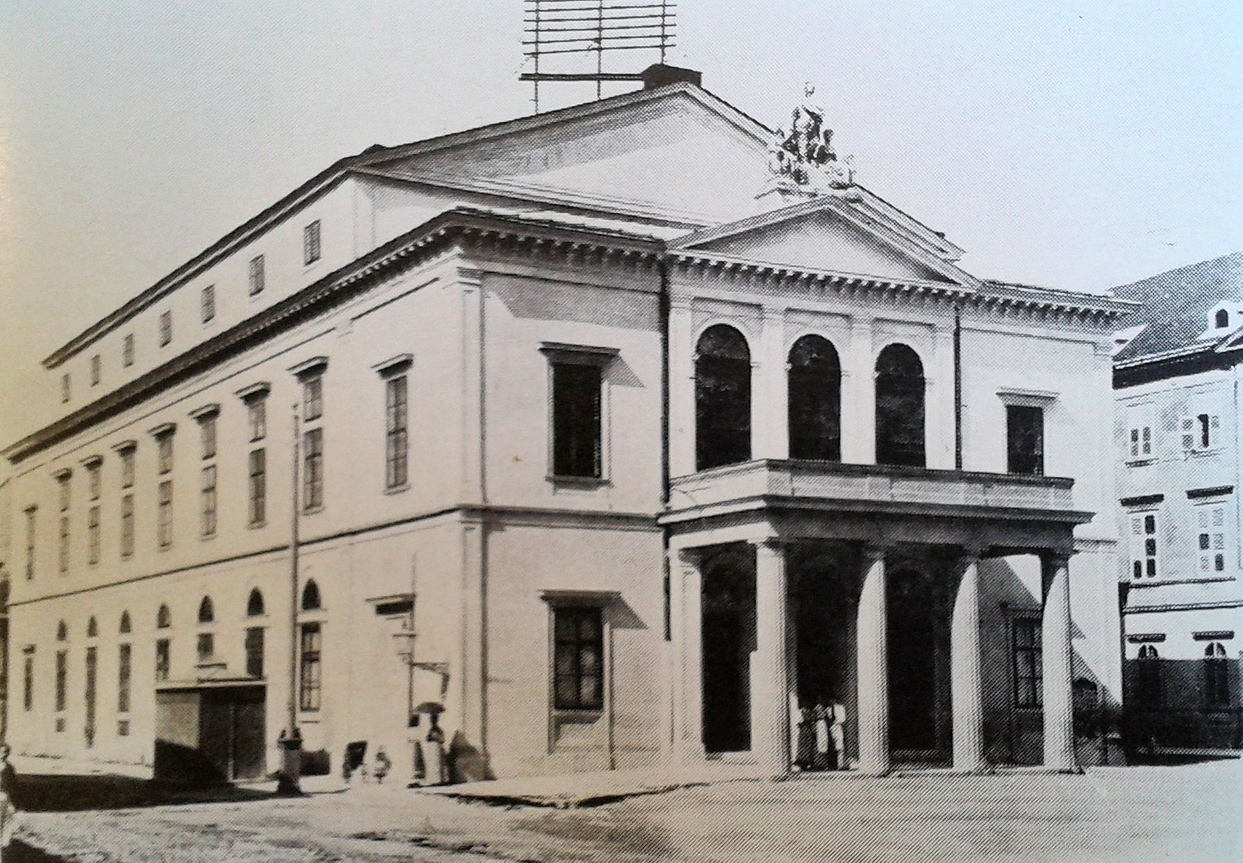 The old theater of Sopron, before 1909. Originally built in 1840 by Franz Lössl.